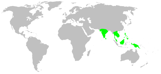 Stenochilidae habitat distribution, drawn after Platnick: World Spider Catalog 7.0. This is not a precise rendering of the distribution! If you have better information, please replace this map, or send me the info, and i will redraw it.